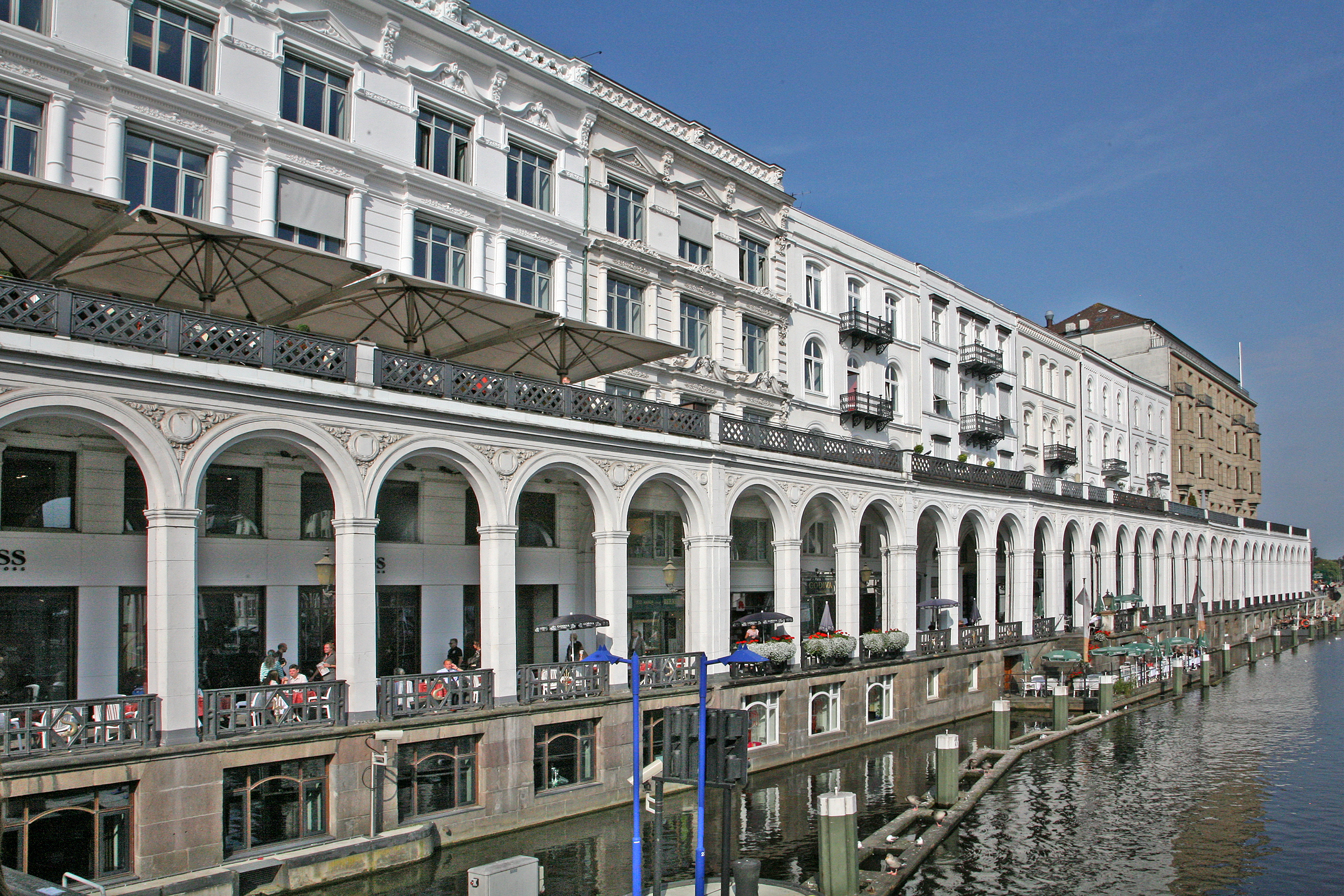 Hamburg, Alster Arcades. The Alster Arcades on the Fleet der Kleine Alster are among the most famous promenade in Hamburg.